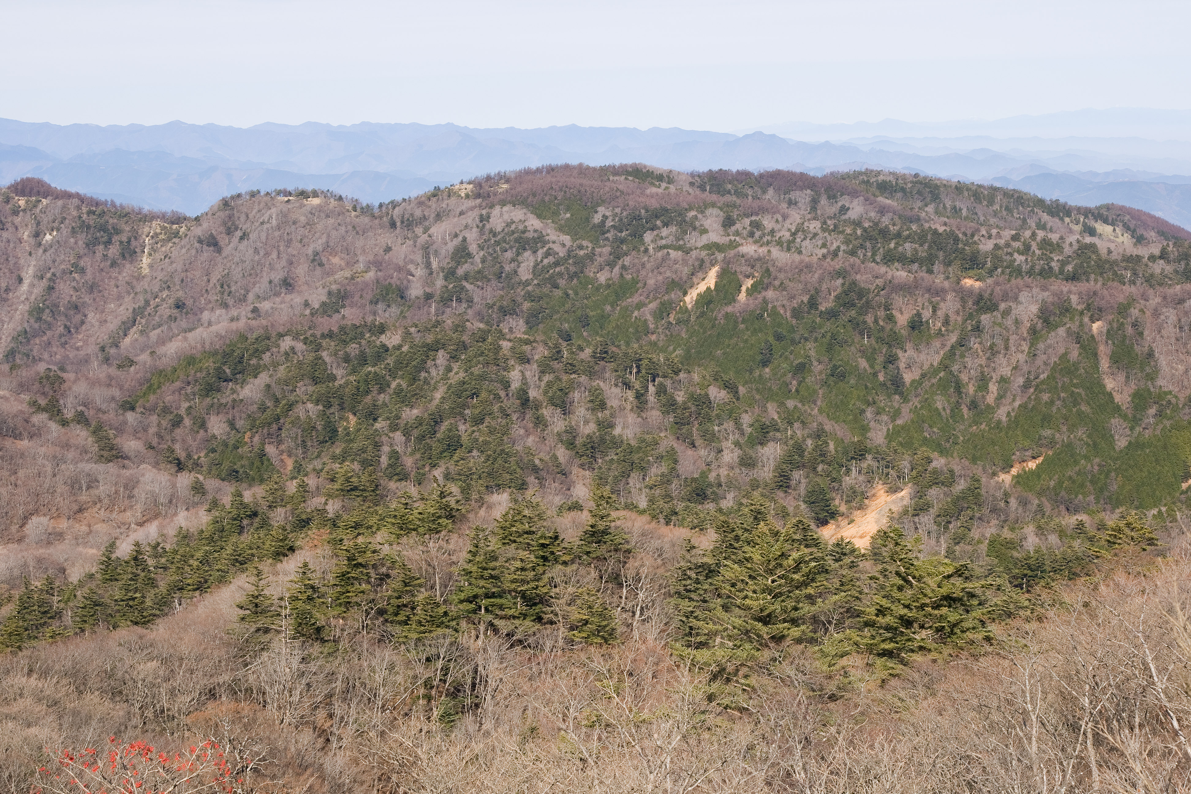 Mt.Himetsugi as seen from the north-side of Mt.Hirugatake in Tanzawa Mountains, Kanagawa Pref., Japan.